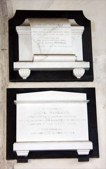 St Margaret of Antioch, Norfolk - Wall monuments